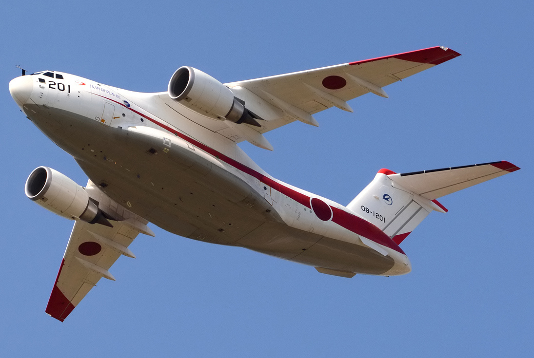 Kawasaki XC-2